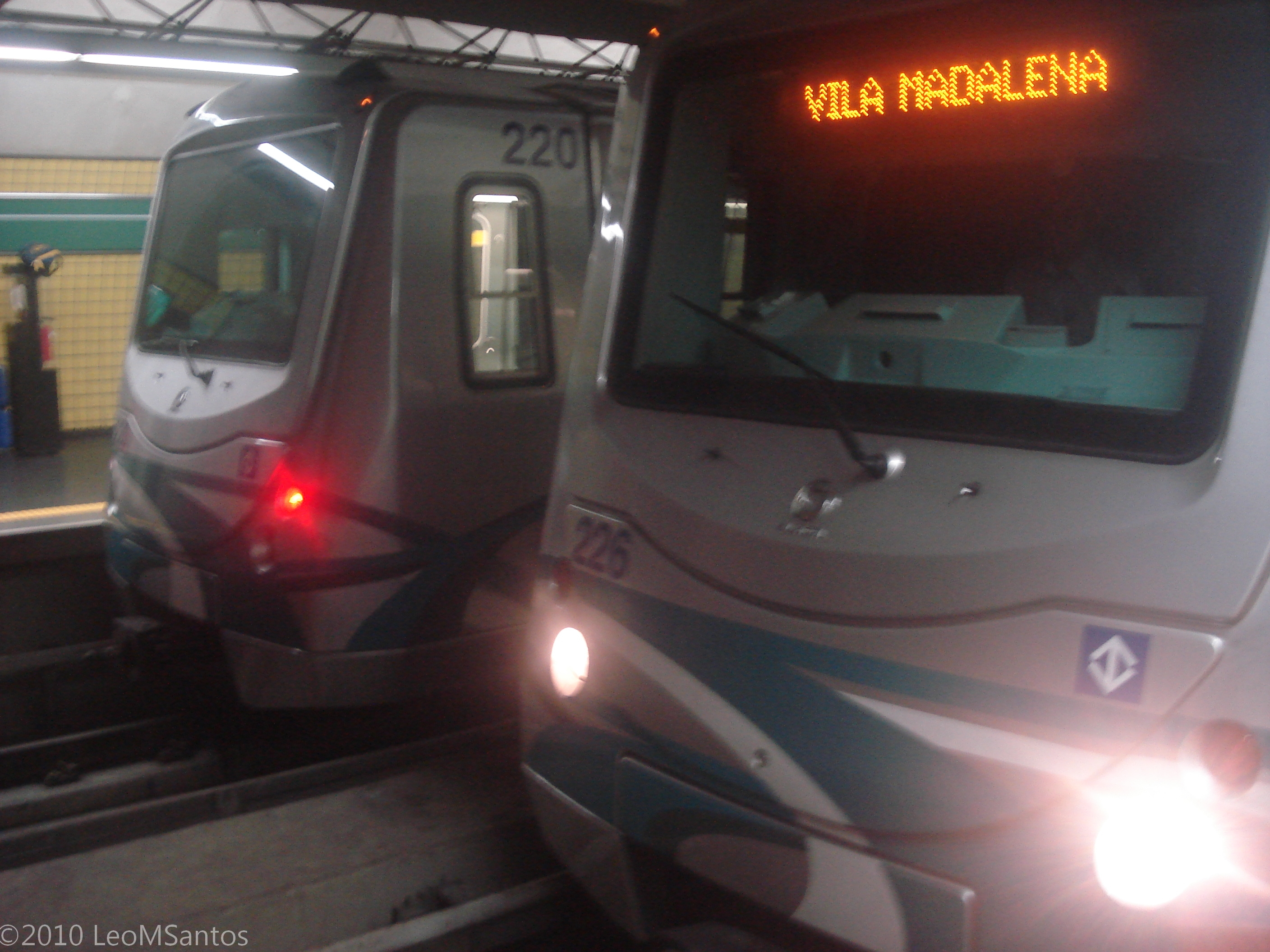 Train Alstom A96, from Line 2 - Green of São Paulo Metro.